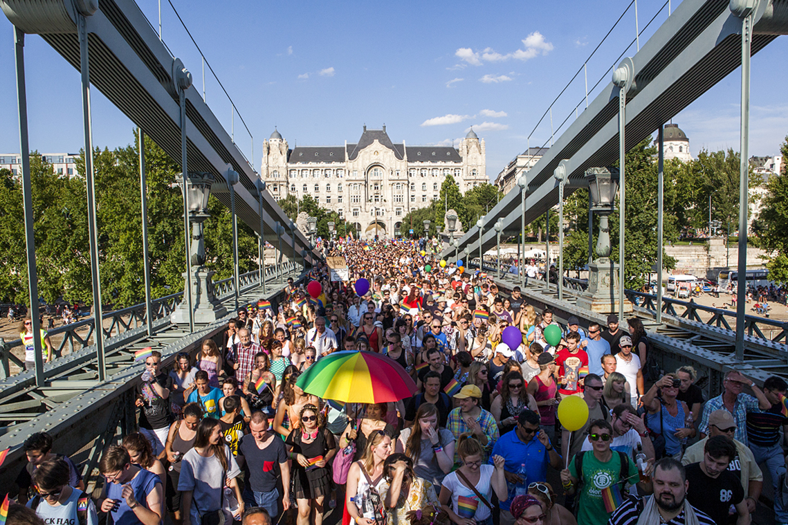 Budapest Pride Felvonulás